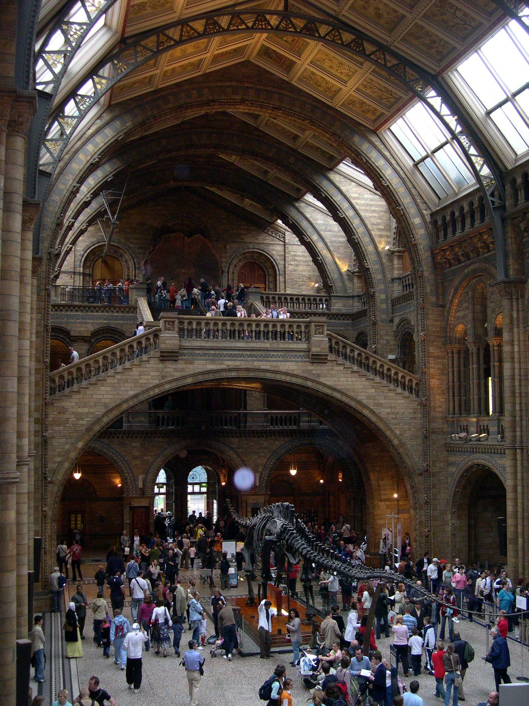 Main hall of the Natural History Museum, South Kensington, London